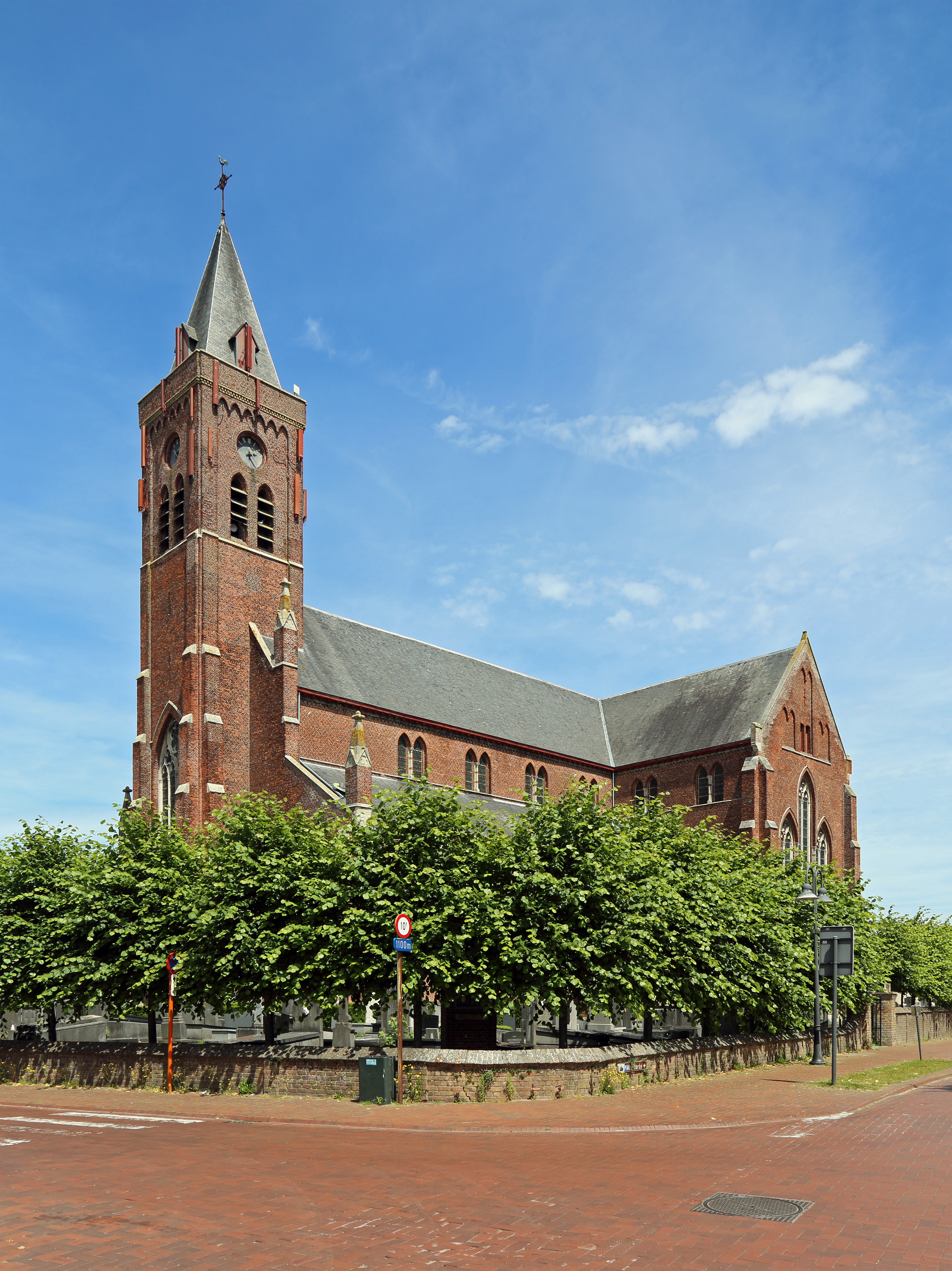 Moerkerke (municipality of Damme, Province of West Flanders, Belgium): St Denis church